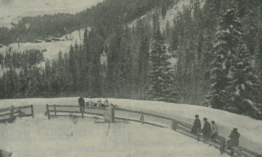 Last turn of bobsleigh and luge run Arosa, Switzerland